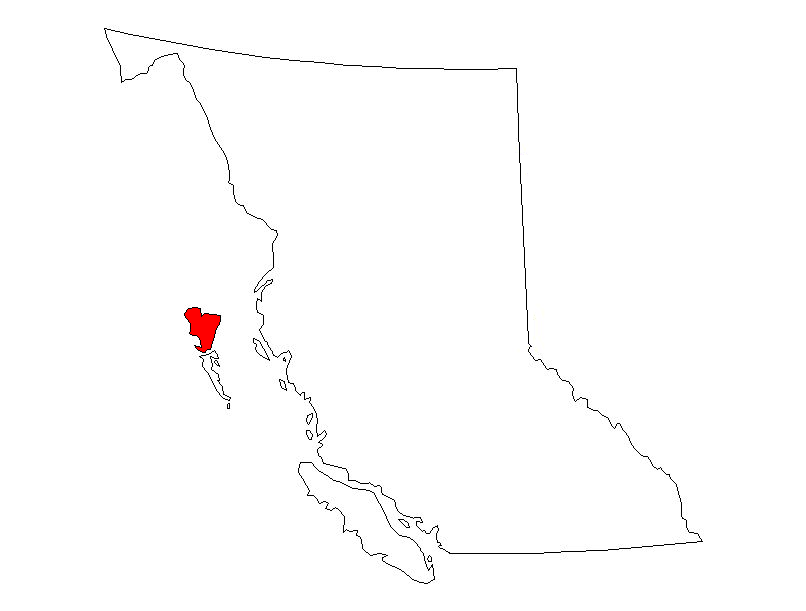 Graham Island marked at the map of British Columbia, Canada.